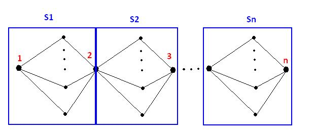 example to prove NP complete